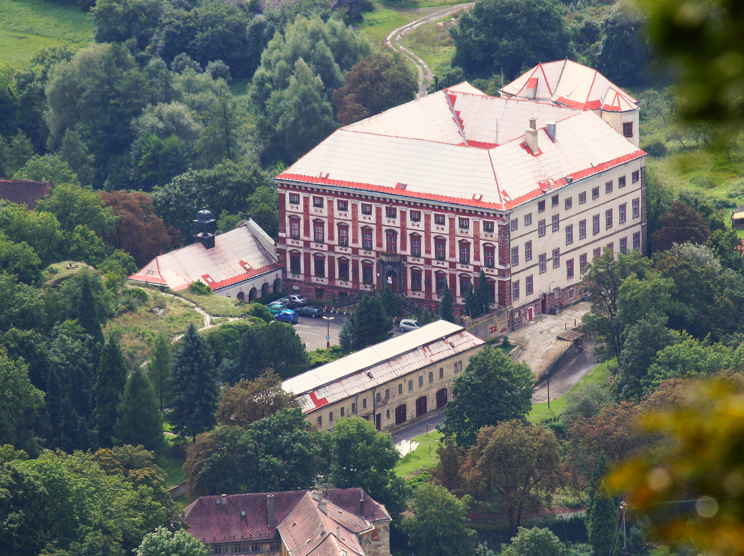 Milešov Palace as seen from Milešovka Hill, České středohoří, Czech Republic.